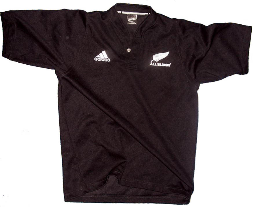 All Blacks jersey (worn in 1999 for the first time), with background erased.